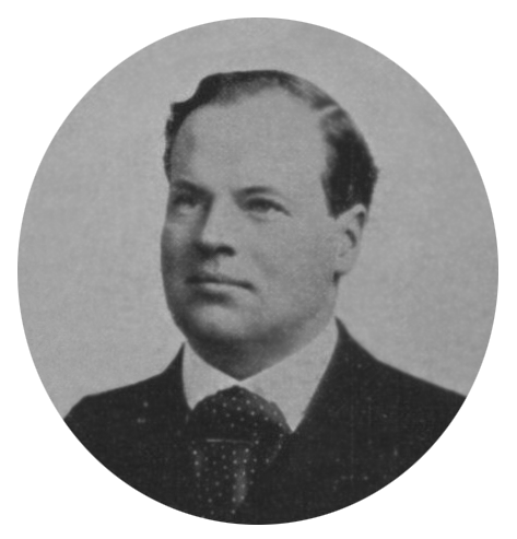 Charles Duncombe, 2nd Earl of Feversham (1879-1916).